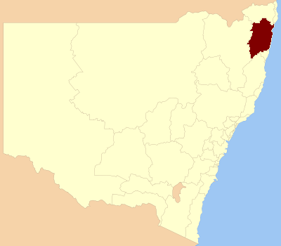 Location of the New South Wales Legislative Assembly electoral district within New South Wales. Reference: [1]